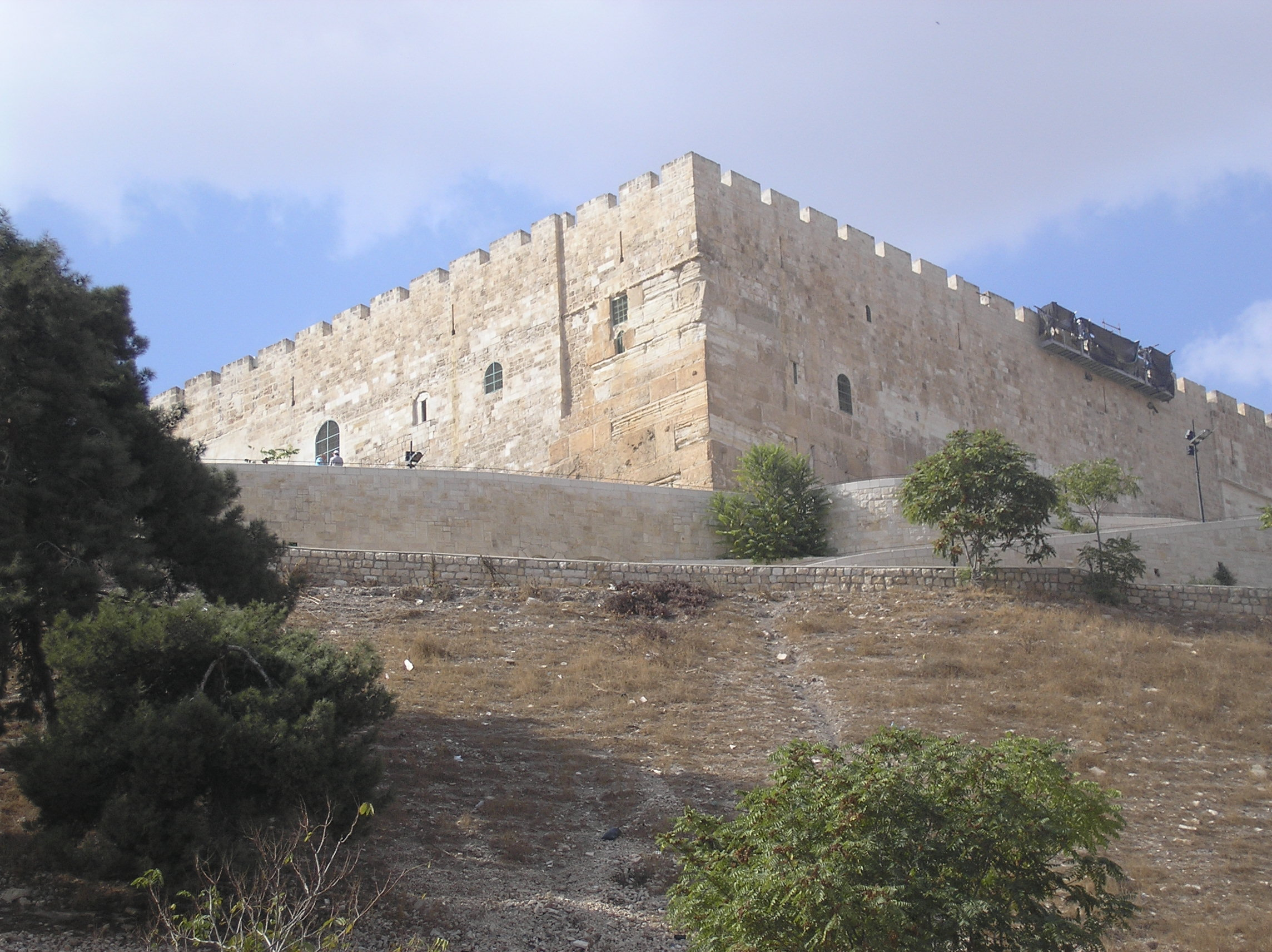 The South Eastern Corner